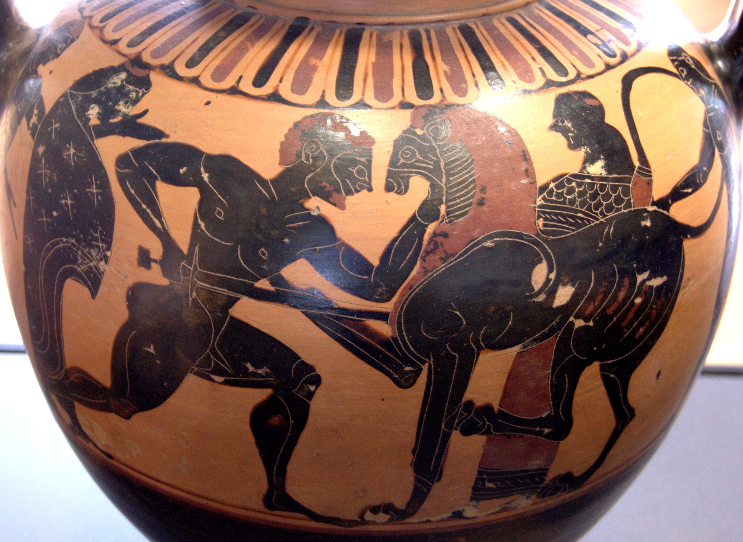 Side A: Heracles and the Nemean Lion. Side B: Riders. Side A